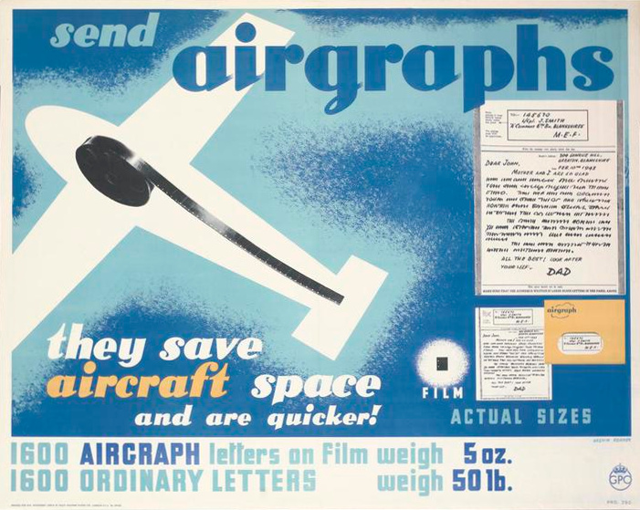 Send Airgraphs whole: the main title is placed across the top and the subtitle across the bottom of the image area. The image covers 90 percent of the poster, with a text banner across the bottom. image: simplified plan view of aircraft on left with airgraph spool superimposed along fuselage. Actual size representations of airgraph formats to the right. All set against mid blue and light blue background. text: send airgraphs they save aircraft space and are quicker! FILM ACTUAL SIZES AUSTIN COOPER 1600 AIRGRAPH letters on film weigh 5oz. 1600 ORDINARY LETTERS weigh 50lb. GPO PRINTED FOR H.M. STATIONERY OFFICE BY MULTI MACHINE PLATES LTD. LONDON E.C.4 51-3402 PRD. 290